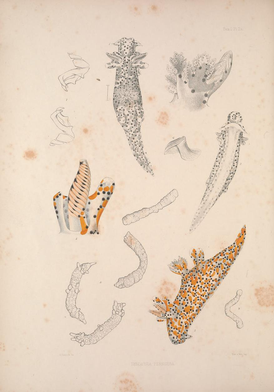 Alder J. & Hancock A. (1845-1855). A monograph of the British nudibranchiate Mollusca: with figures of all the species. The Ray Society, London. Published in 8 parts:Part 7 Fam.1 Plate 21a [1855] Thecacera pennigera (Montagu, 1815)